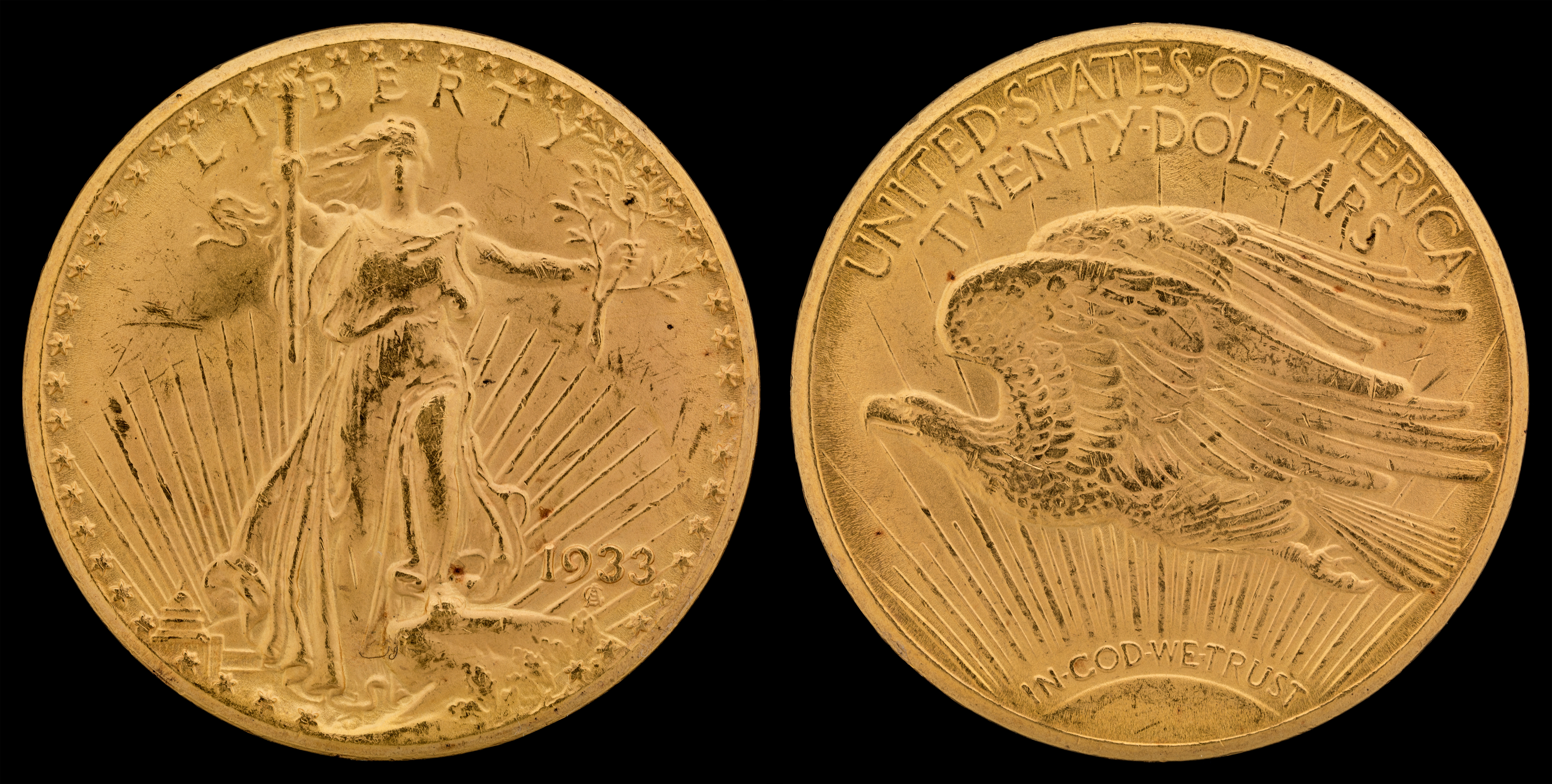 1933 G$20 Saint GaudensGold (fineness 0.9000), 34mm, 33.436g, designed by Augustus Saint-GaudensJN2015-5989-90